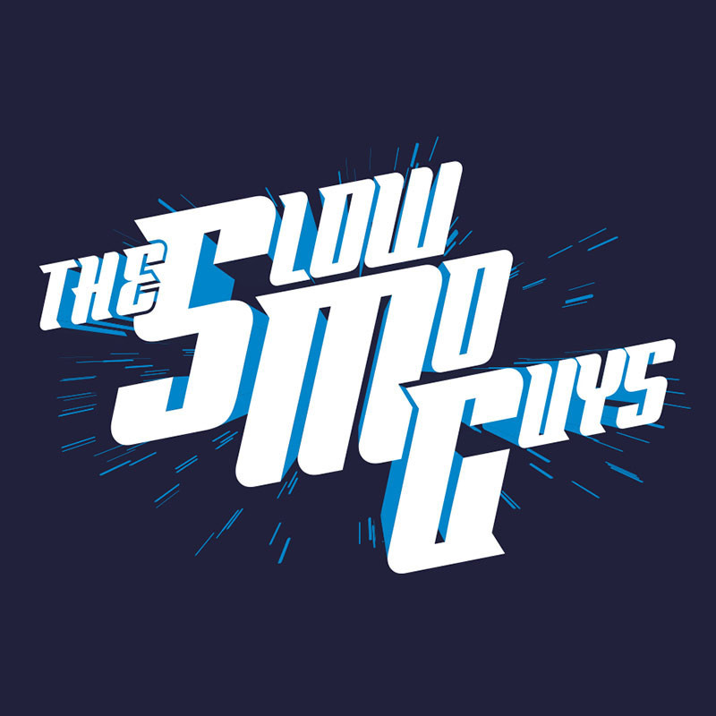 The logo of the famous YouTube channel, The Slow Mo Guys, from their t-shirt on the RT Store